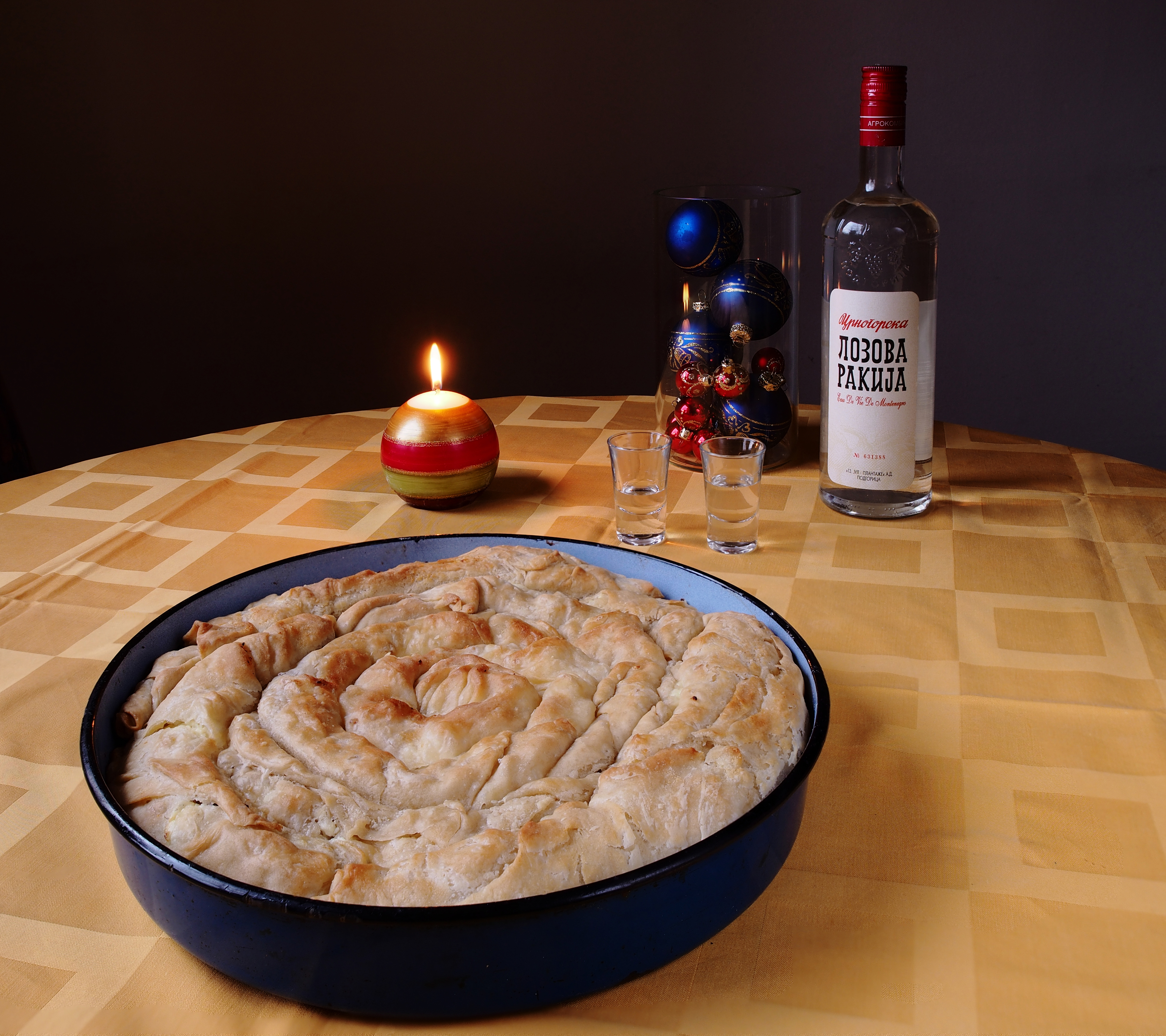 Rolled pie (or rolled burek) is traditionally a meal in Serbia, Bosnia and Herzegovina and Montenegro. It is made of thin pie crusts made from dough, in which the filling are cheese, mushrooms, meat etc. (in a salty variant) or different fruit (in a sweet variant). In Central Serbia, a tiny variant is made before Christmas. For that occasion rice and nuts are used as pie filling. It can also be used as salty and sweet, but according to how the filling is prepared. The rolled pie serves as an appetizer or "meze" at various celebrations, but often also as a daily dish.Српски (ћирилица): Пита "савијача", традиционално је јело у Србији, Босни и Херцеговини и Црној Гори. Прави се од танких кора, направљених од теста, у које се умотава сир, месо печурке и сл. (у сланој варијанти) или различито воће (у слаткој варијанти). У Централној Србији се прави и посна, пред Божић, када се као фил користе пиринач и ораси, ба се може служити и као слана и као слатка, већ према томе како се фил припреми. Пита "савијача" служи се као предјело или "мезе" на разним слављима, али често и као свакодневно јело.